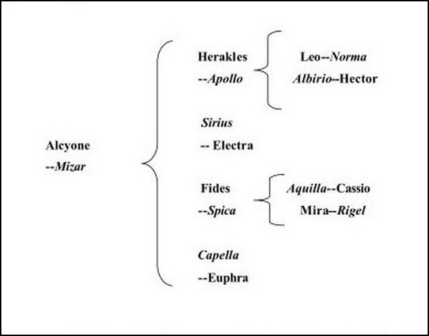 The example of a Chart.